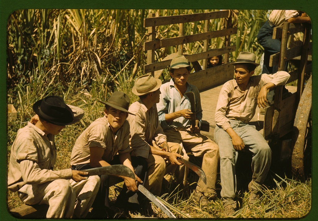 Title: Sugar cane workers resting, Rio Piedras, Puerto Rico